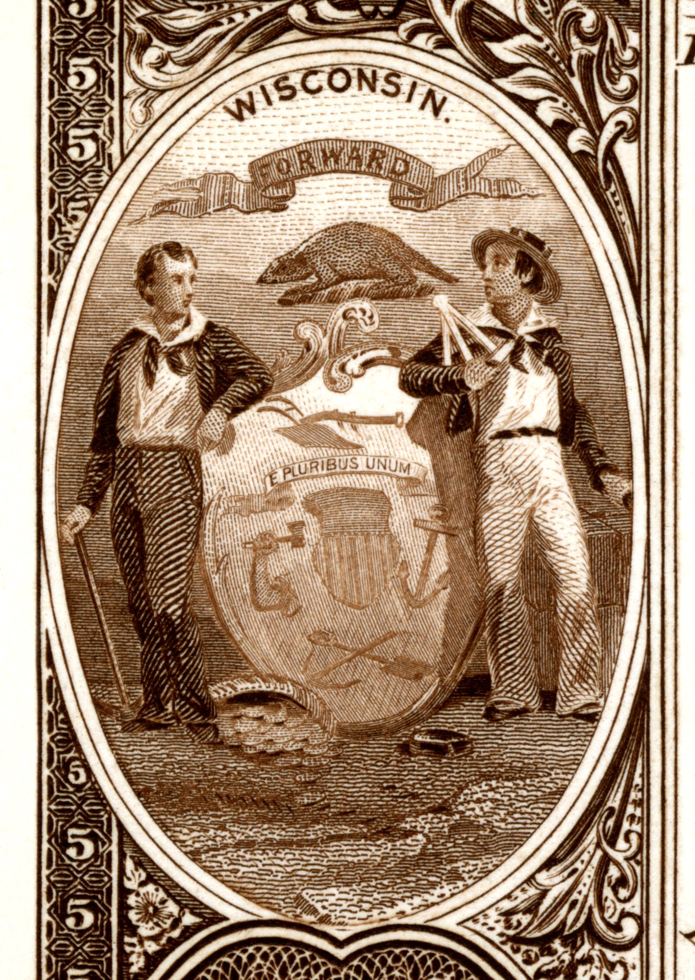 Wisconsin state seal (first type) depicted on the reverse of Series 1882BB National Bank Notes. From the Bureau of Engraving and Printing certified proofs.(1851)